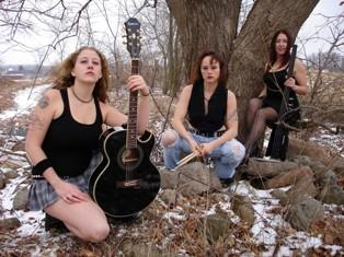 This is the first ever photo taken of Syren as a band. Take near Detroit, Michigan in 2006.